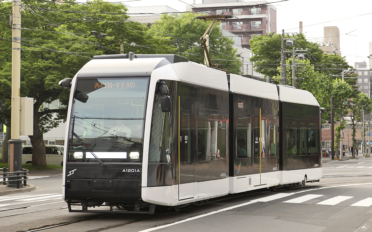 Sapporo Street Car Type A1200 (Shiseikan Shōgakkō-mae - Higashi Honganji-mae)